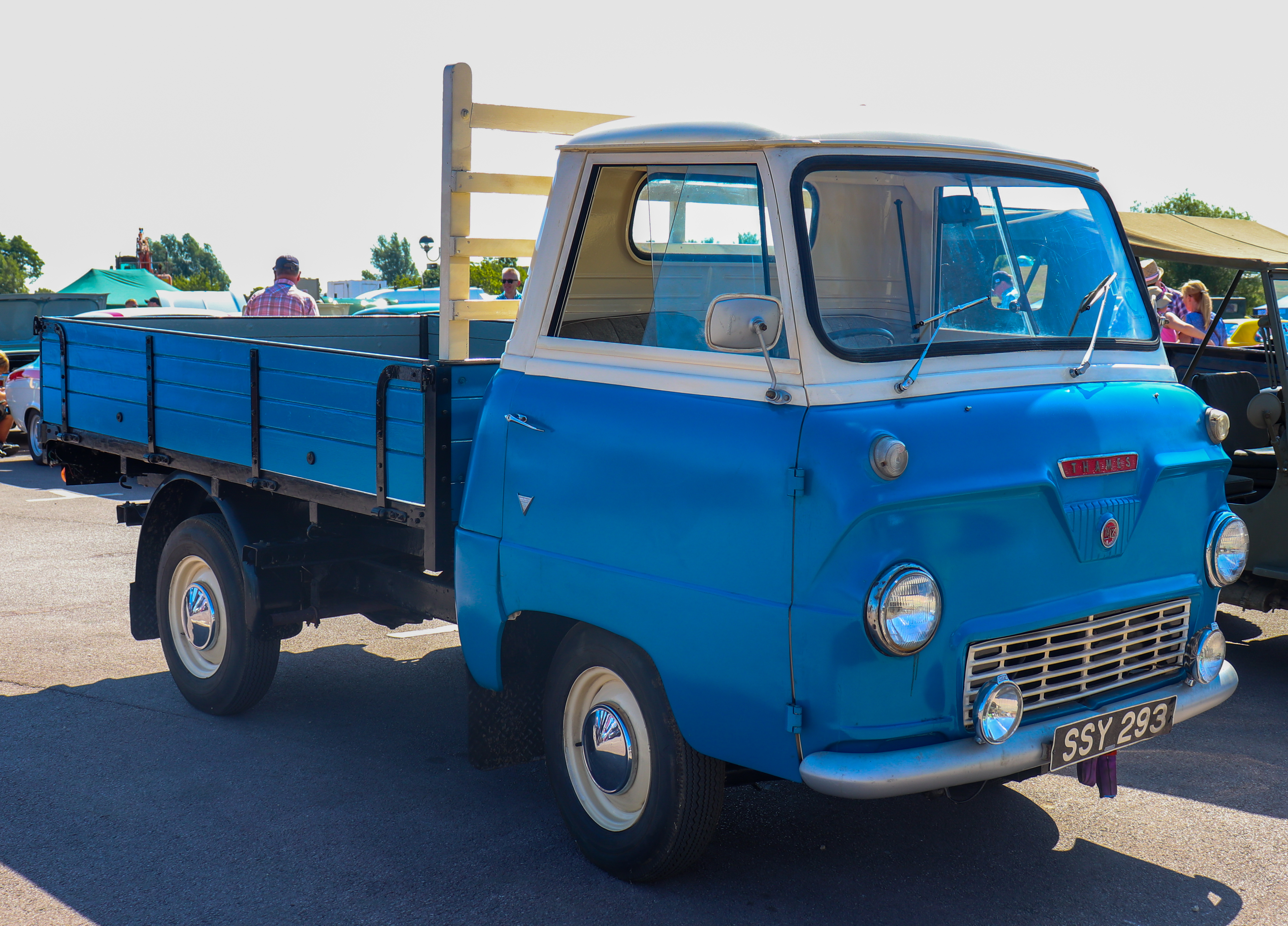 1961 Thames 400E Taken at the British Motor Museum Old Ford Rally 2018, Gaydon